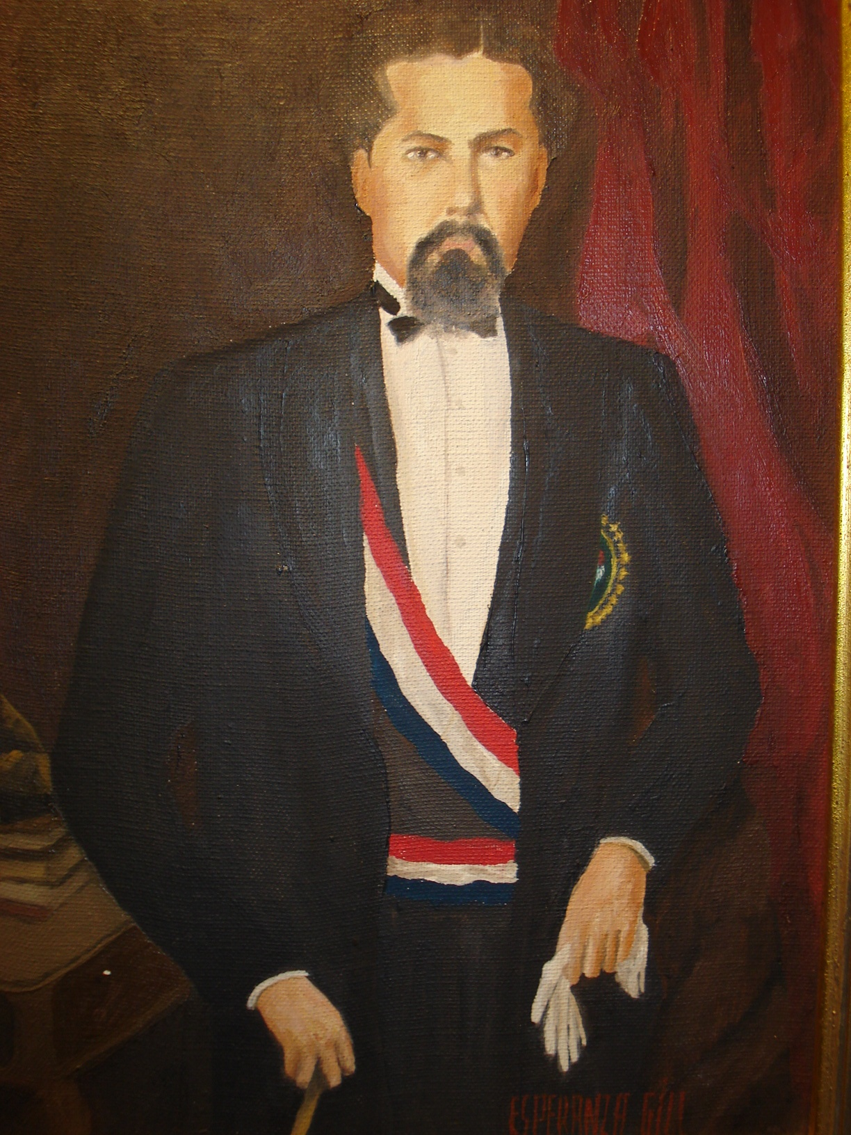 Paraguayan President 1874 1877